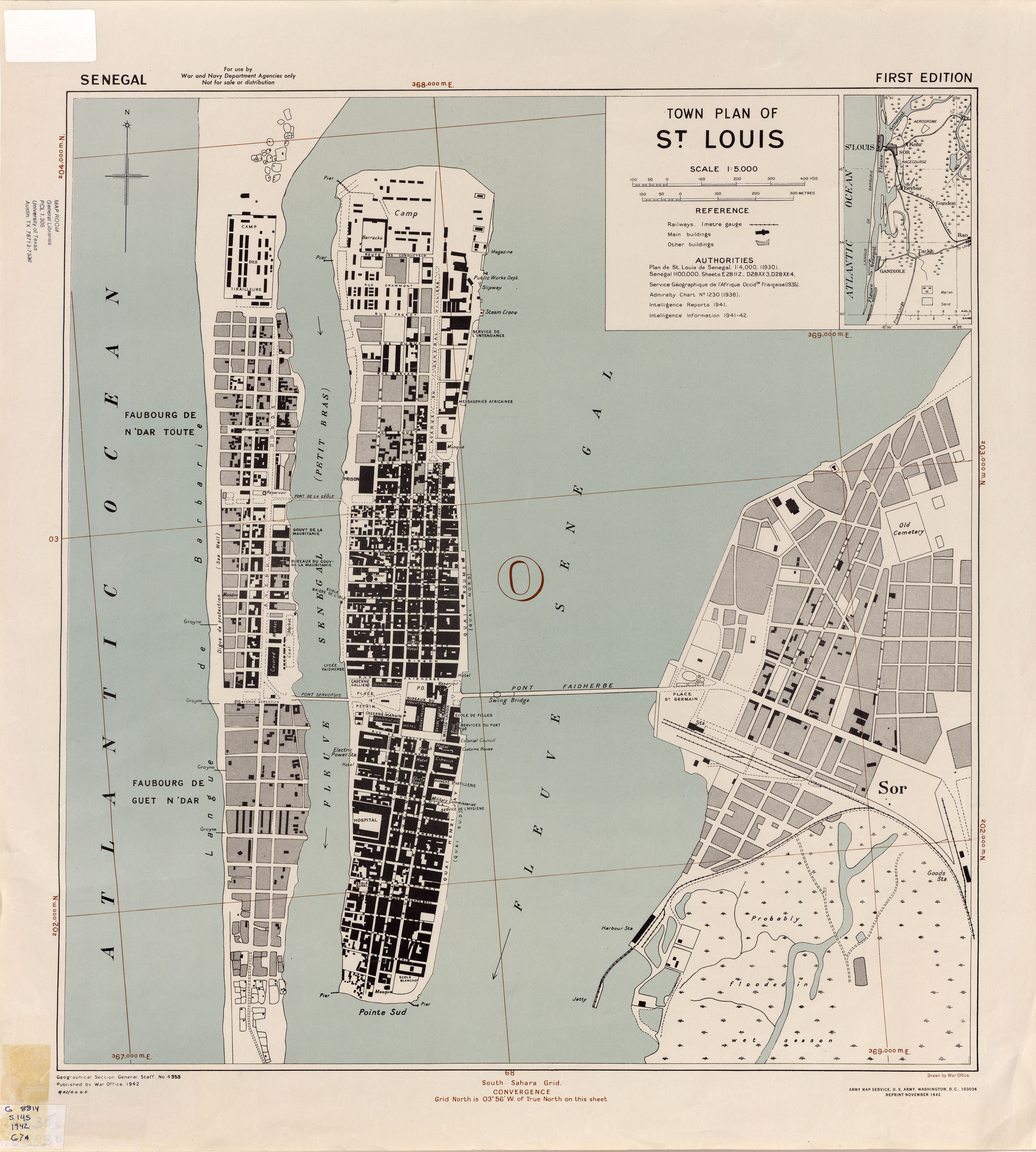 Map of Saint Louis, Senegal